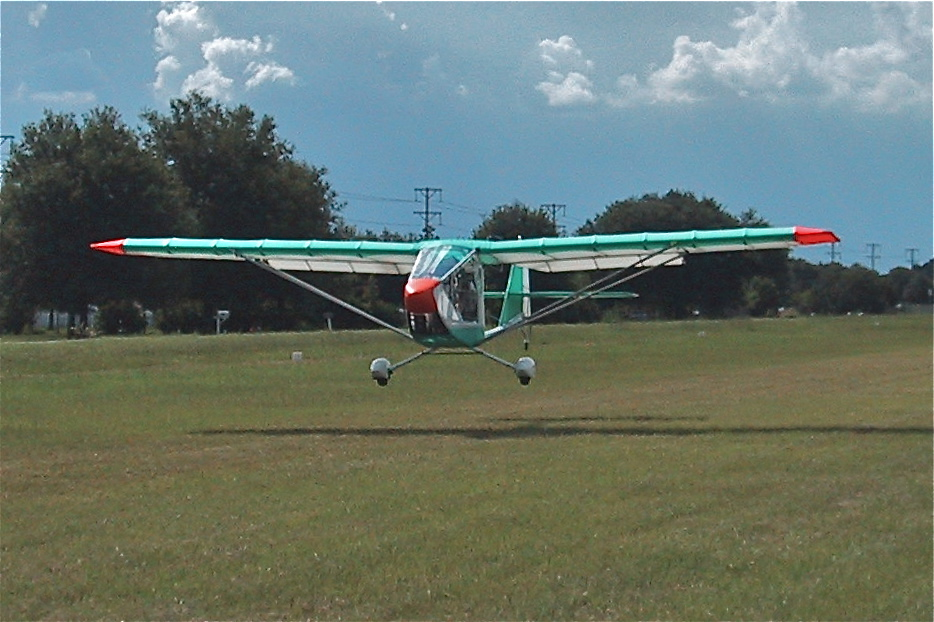 A CGS Hawk Sport, powered by a 40 HP Rotax 447 two-stroke engine.